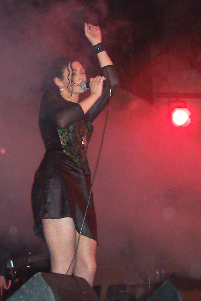 Candia Ridley, singer for Inkubus Sukkubus, sings onstage.